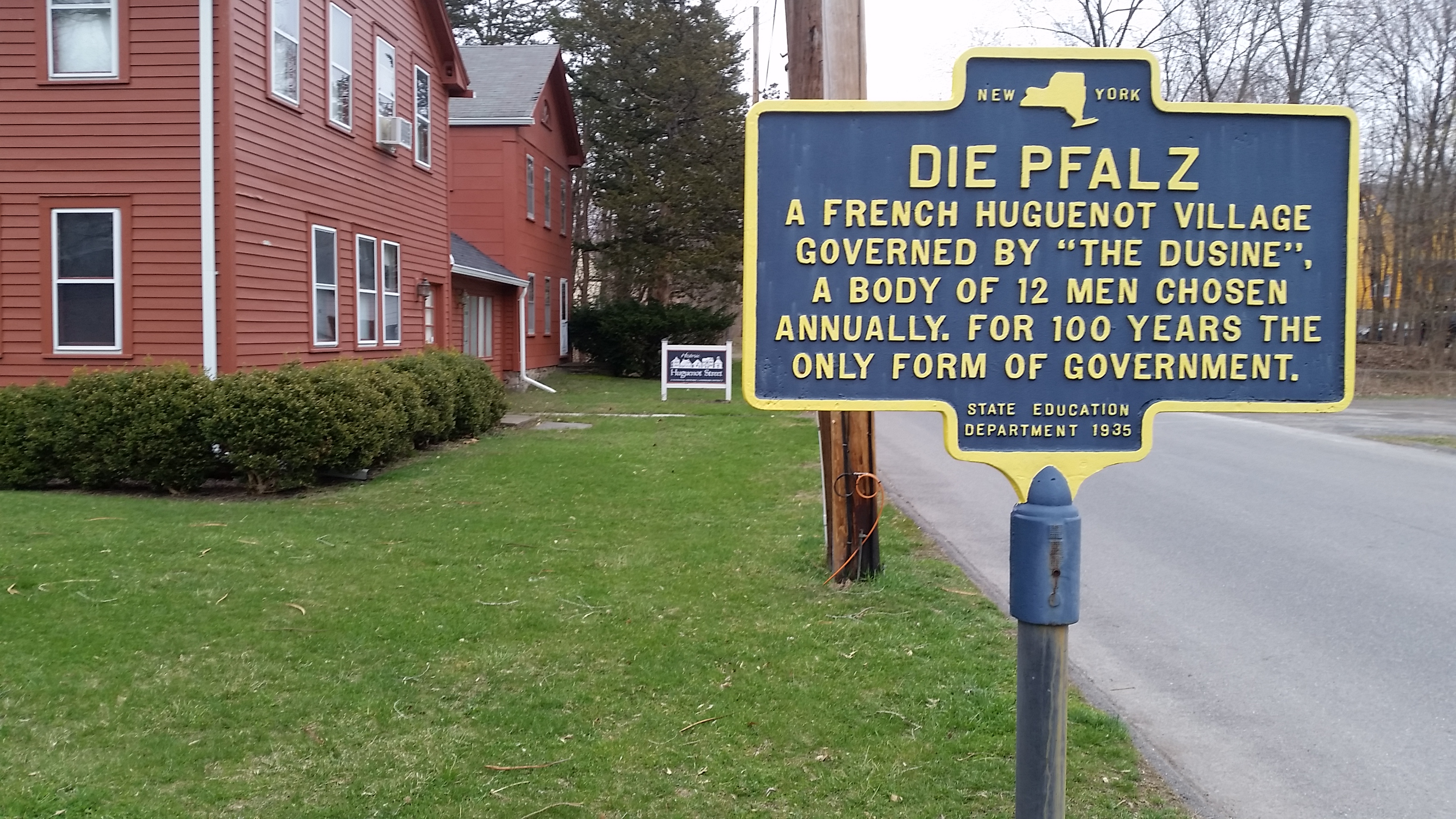 NY State Historic Marker at New Paltz's Huguenot Street Historic District for the "Die Pfalz"